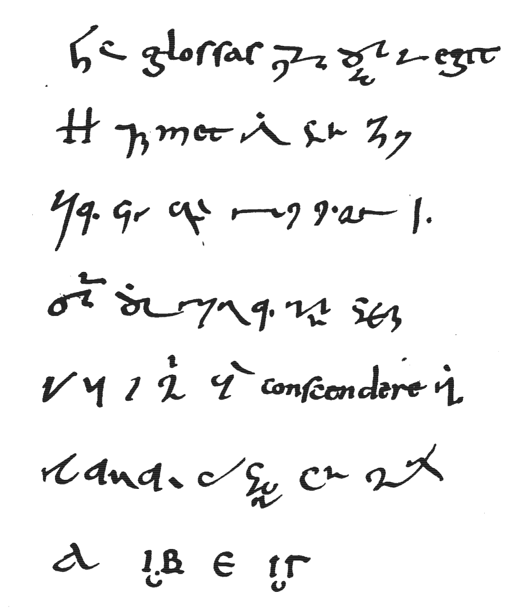 Metric colophone of manuscript Laon, Bibl. mun. 444, fol. 275v, written in tironian notes by one of the scribes of Martinus Hibernensis (Martin of Laon), reproduced from a facsimile in Catalogue général des manuscrits des bibliothèques publiques des départements, vol. I, Imprimérie nationale, Paris 1849, between p. 234 and p. 235